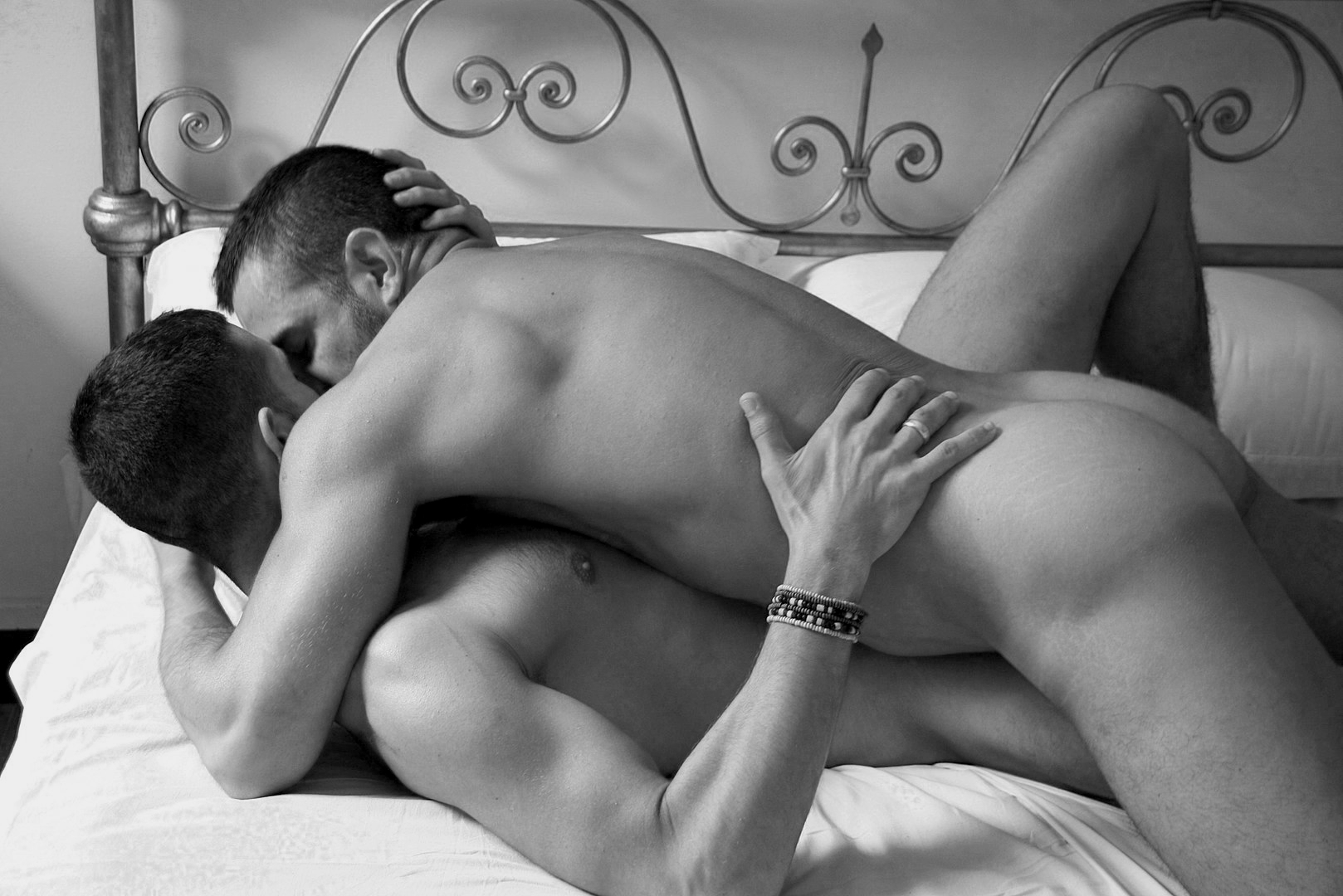 Black and white edit of the original The Golden Bed 1 by Giovanni Dall'Orto